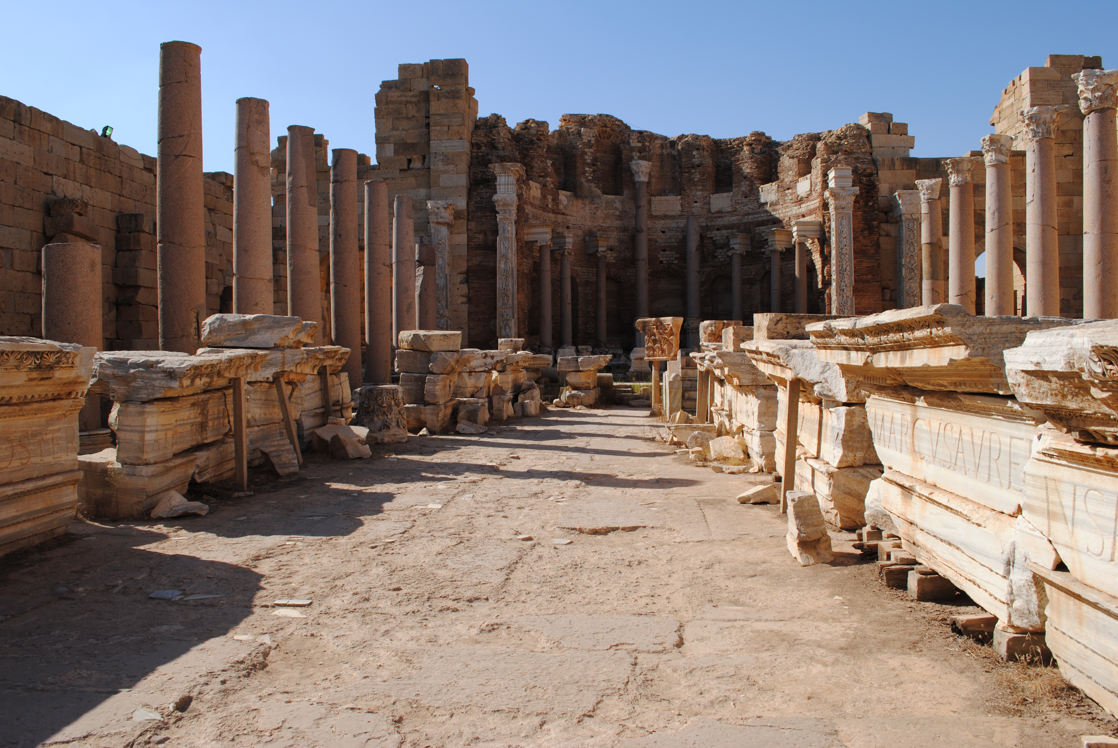 Leptis Magna, Al-Khums, Libya